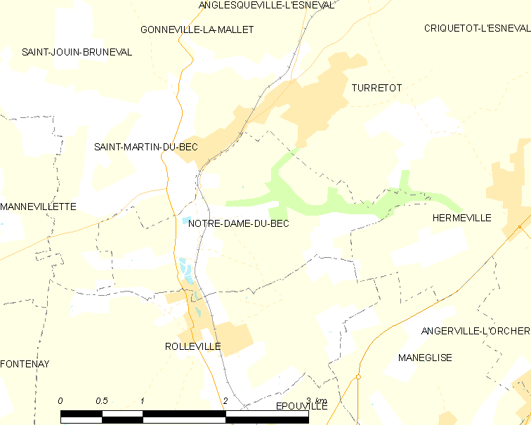 Map of French municipality Notre-Dame-du-Bec